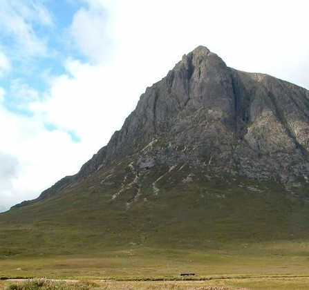 Buchaille etive mor.jpg